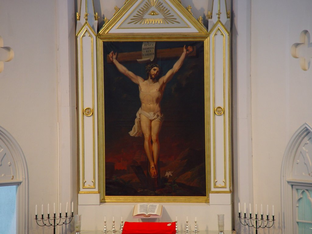 Altarpiece of Asikkalan kirkko (Church of Asikkala) by Vilhelm Ekman (1862).